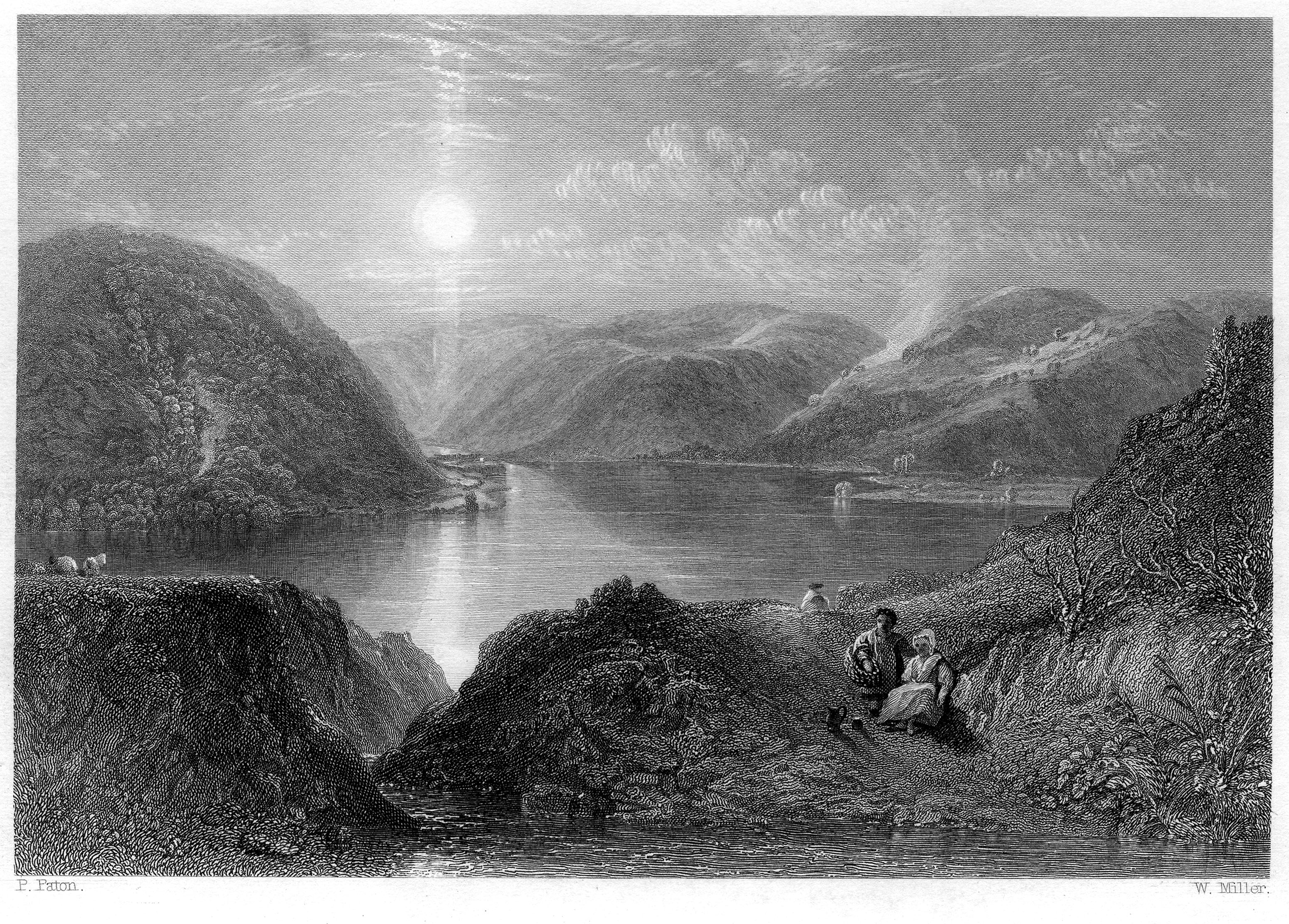 St Mary's Loch engraving by William Miller after P Paton, published in Waverley Novels vol viii (Abbotsford Edition). Walter Scott. Edinburgh and London: Robert Cadell, Houlston & Stoneman 1842 - 1847